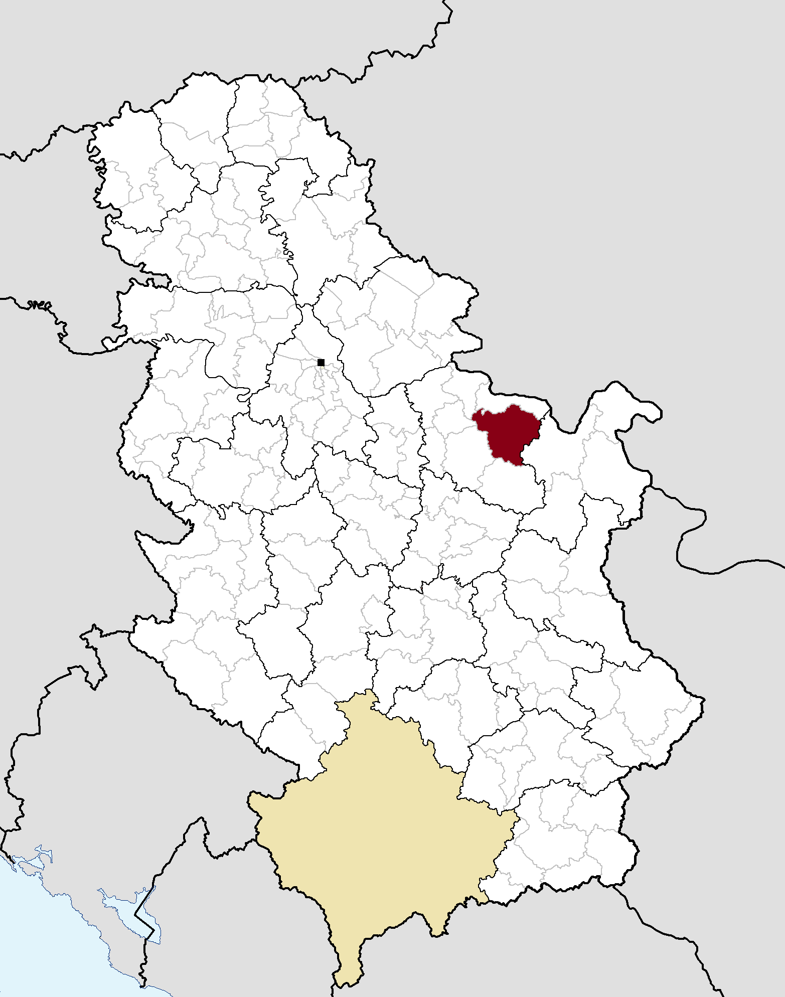 Municipal location in Serbia